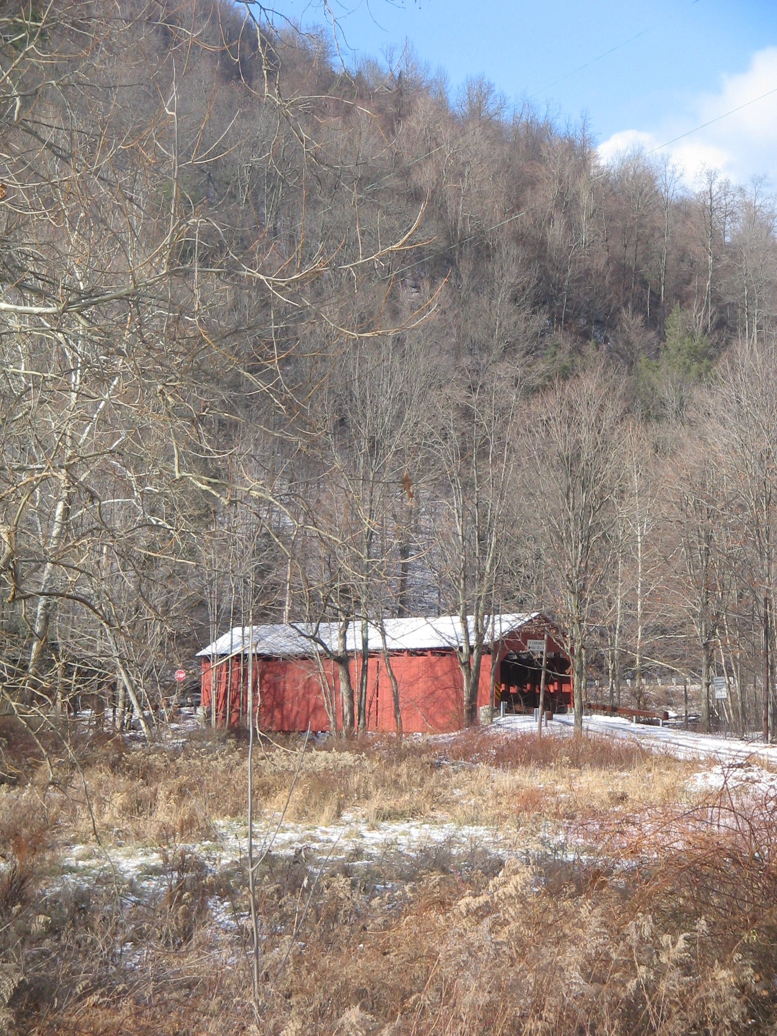 Sonestown Covered Bridge over Muncy Creek in Davidson Township, Sullivan County, Pennsylvania in the United States. Built 1850, on the National Register of Historic Places. View from the southeast from the end of the new bridge.